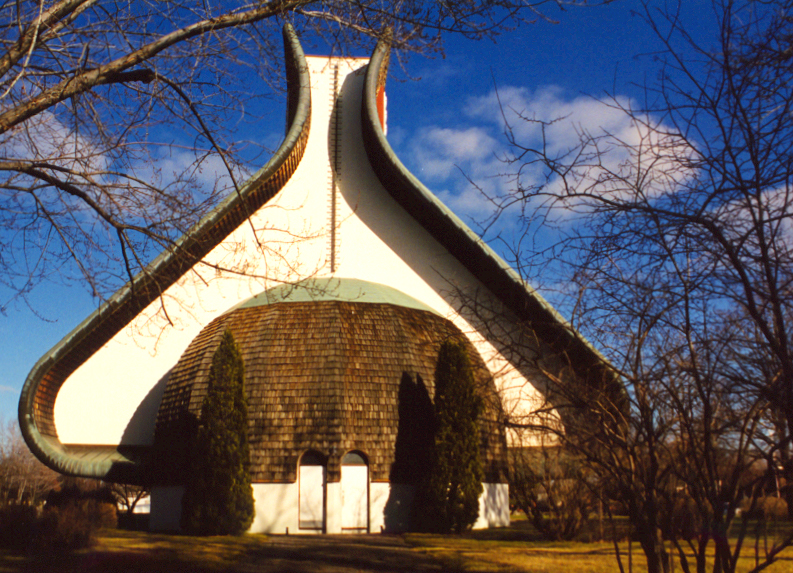 Notre-Dame-des-Champs, Repentigny, Quebec, Canada. The church was build in 1963. It was designed by Canadian architect: Robert D'Astons.